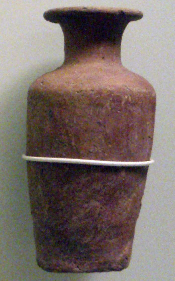 A container for measuring liquids, the value of its contents called a "hin".